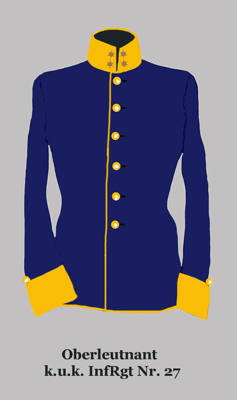 1st Lieutenant of the Austria-Hungarian infantry (Hungarian style tunic with dark yellow regimental identification color and yellow buttons)